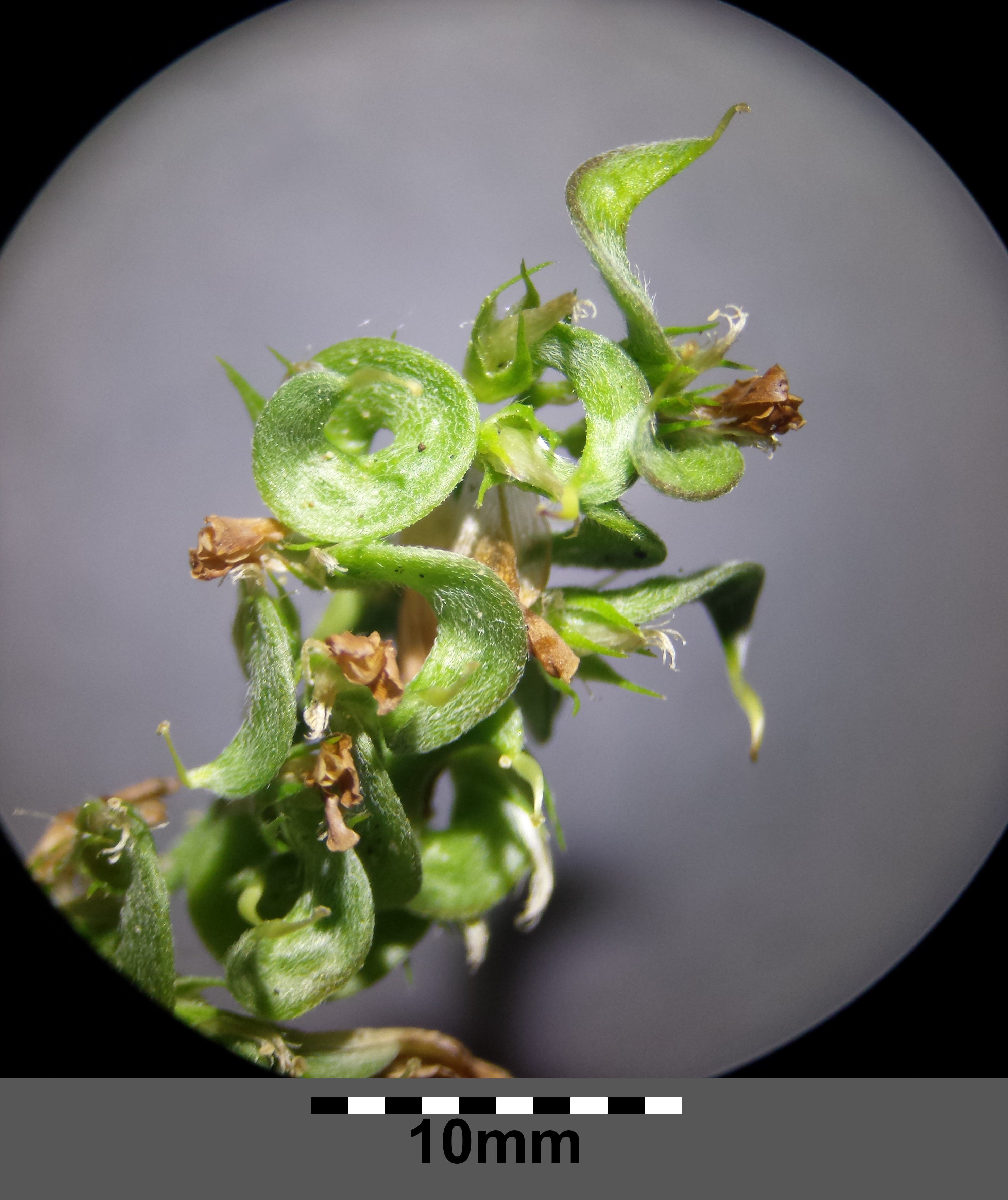 Infructescence Taxonym: Medicago falcata × M. sativa ss Fischer et al. EfÖLS 2008 ISBN 978-3-85474-187-9 Location: Floridsdorf rail station, Vienna-Floridsdorf - ca. 160 m a.s.l. Habitat: ruderal area